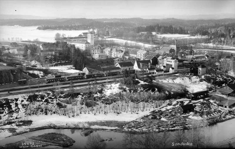 Sandvika Station, Bærum, Norway